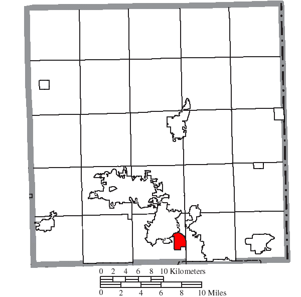 Map of the municipal and township boundaries of Trumbull County, Ohio, United States, as of the 2000 census, with the location of the village of McDonald highlighted. Township borders are shown only in unincorporated areas in order to differentiate incorporated and unincorporated areas more clearly.